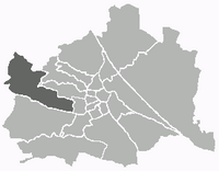 Map of Vienna with 14th district (from German Wikipedia)